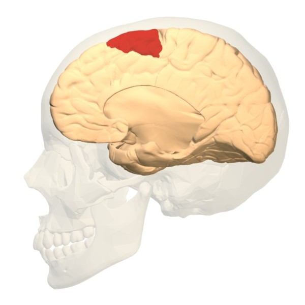 Brodmann areas 6. Premotor cortex.